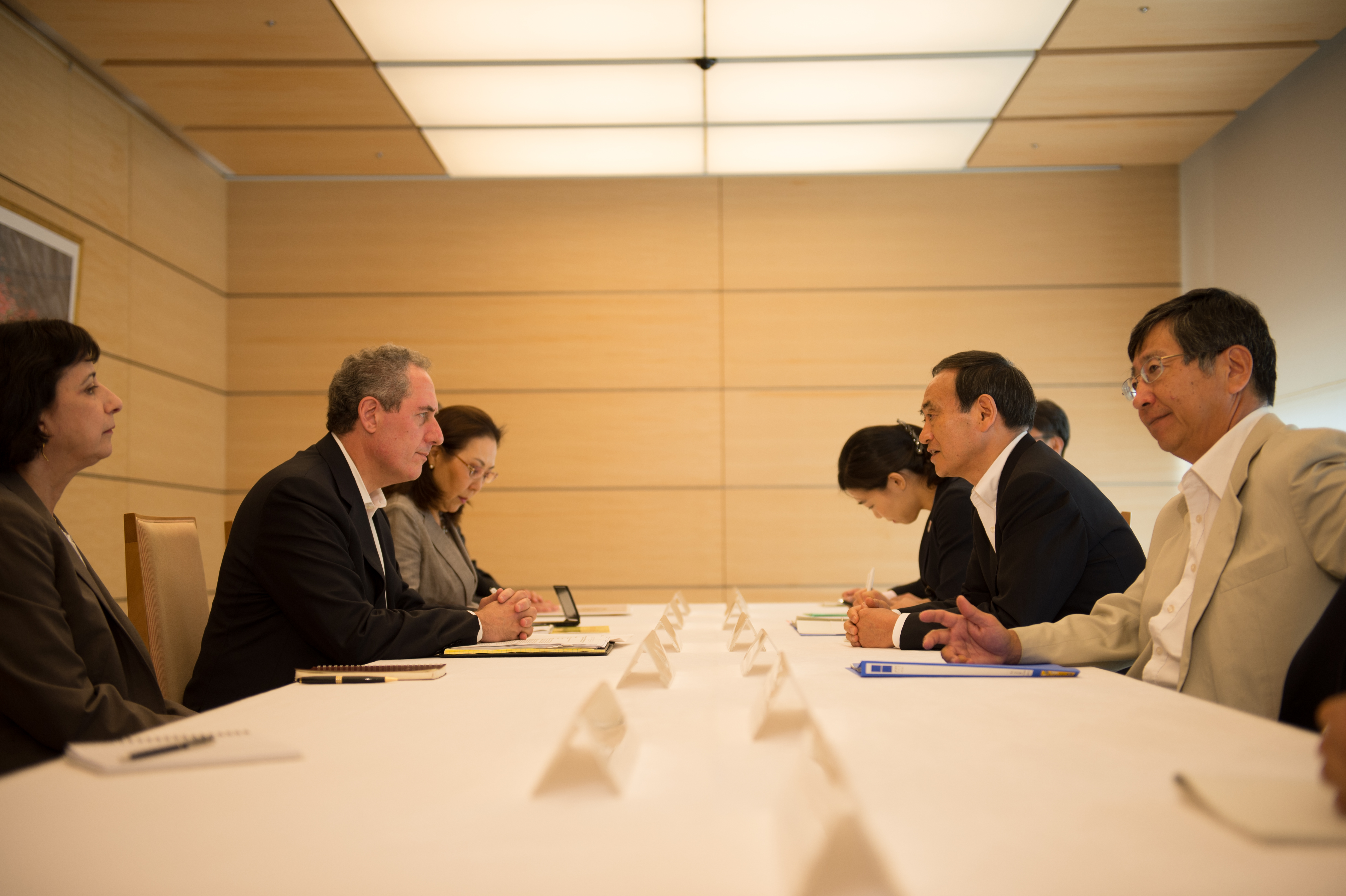 TOKYO, Japan (August 19, 2013) United States Trade Representative Michael Froman meets with Japan’s Chief Cabinet Secretary Yoshihide Suga [State Department photo by William Ng/Public Domain]